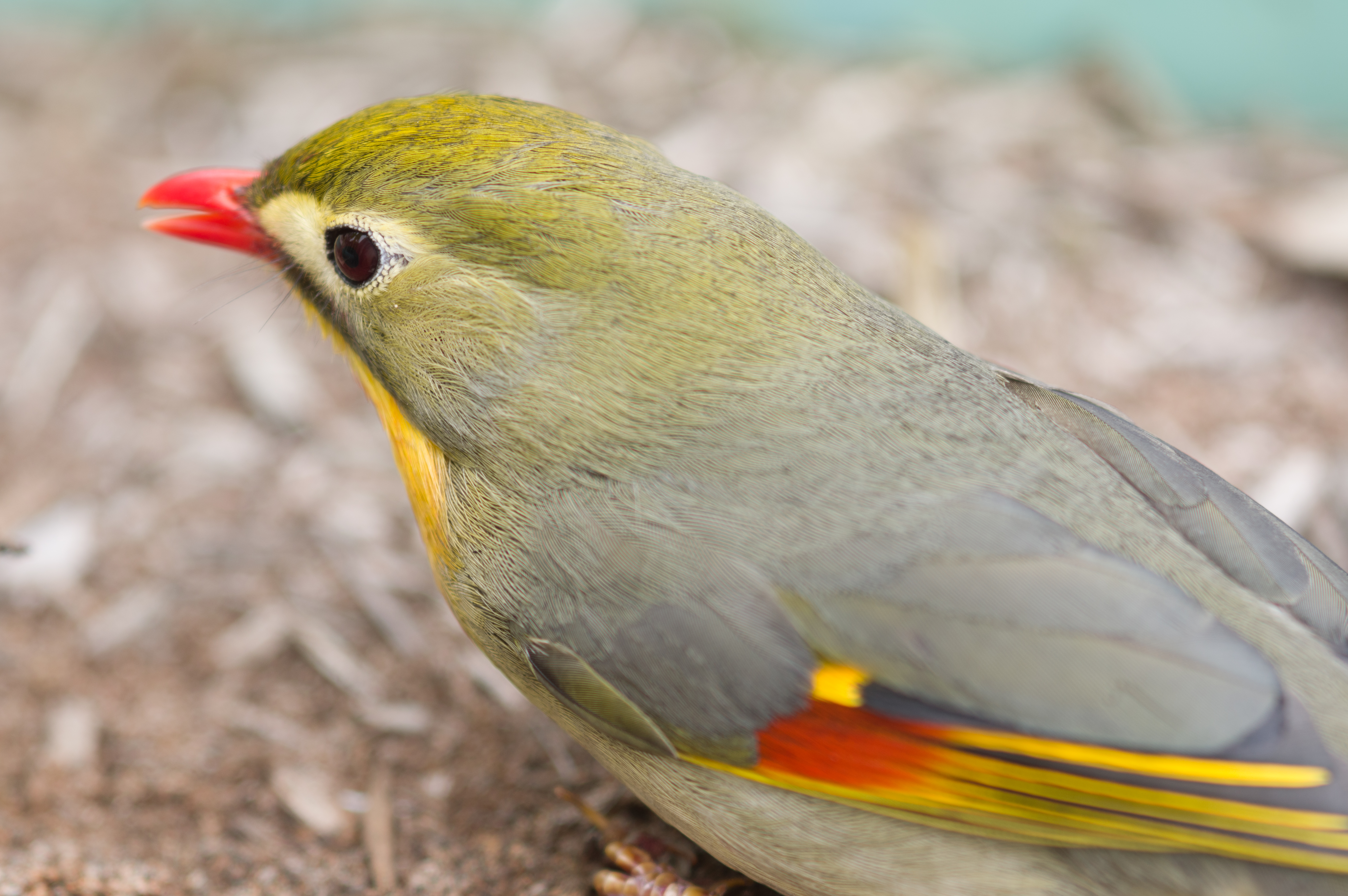 Red-billed leiothrix